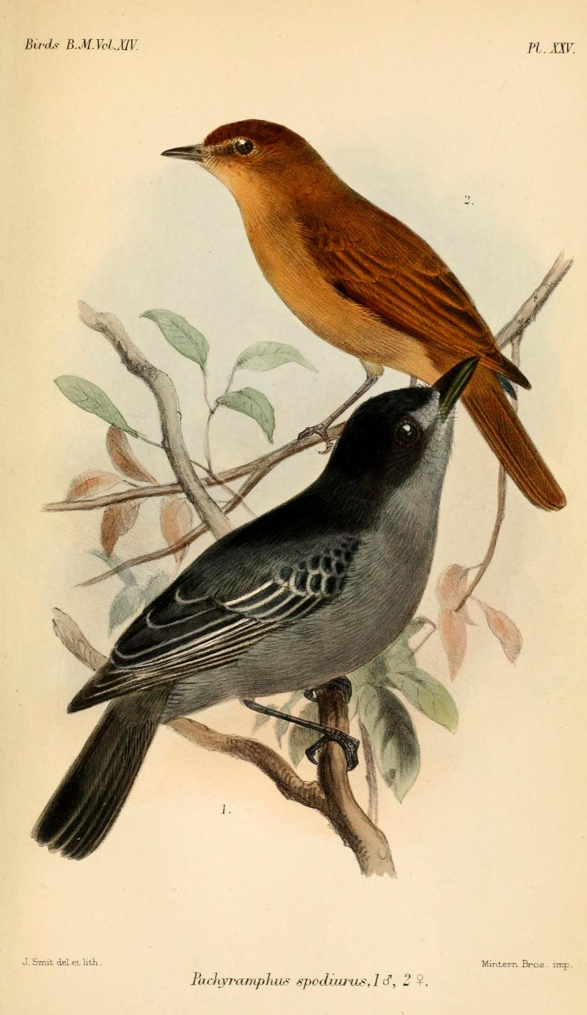 Pachyramphus spodiurus, Slaty Becard